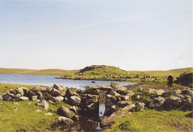 Loch of Houlland, Esha Ness, North Mainland The large mound in the middle distance are the remains on a broch.